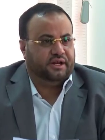 Sammad